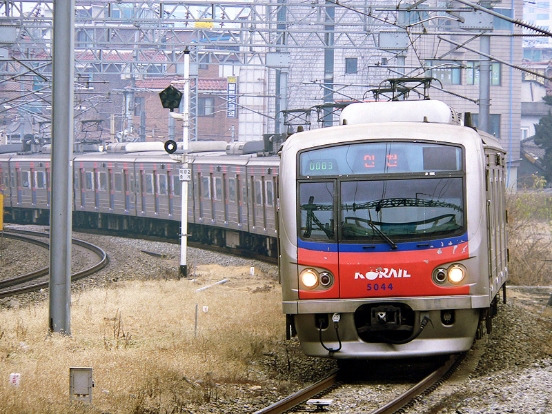 KORAIL 311000 series (formerly Class 5000 series) EMU (3rd version)